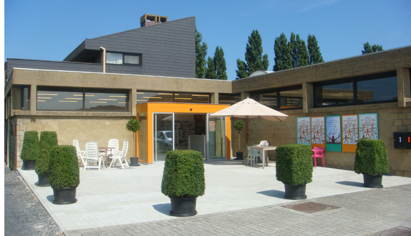 Muurkranten, editors, the premises